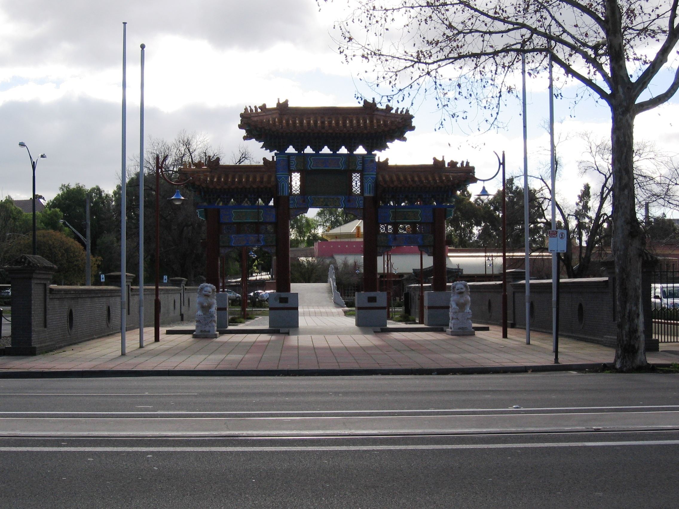 Entrance to the Chinese Gardens at Bendigo, Victoria